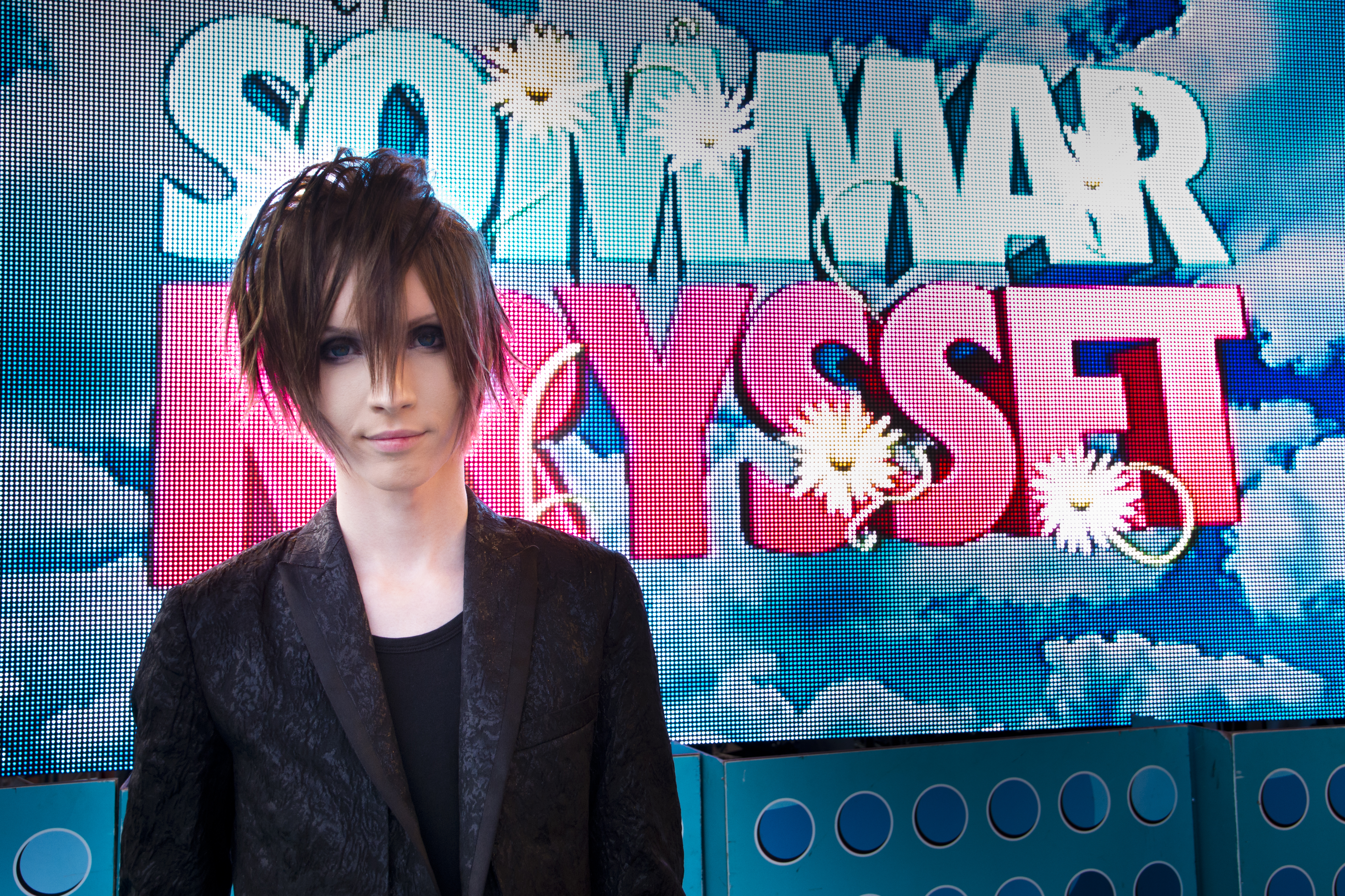 Yohio at Sommarkrysset in Sweden, Stockholm, Gröna Lund 2014